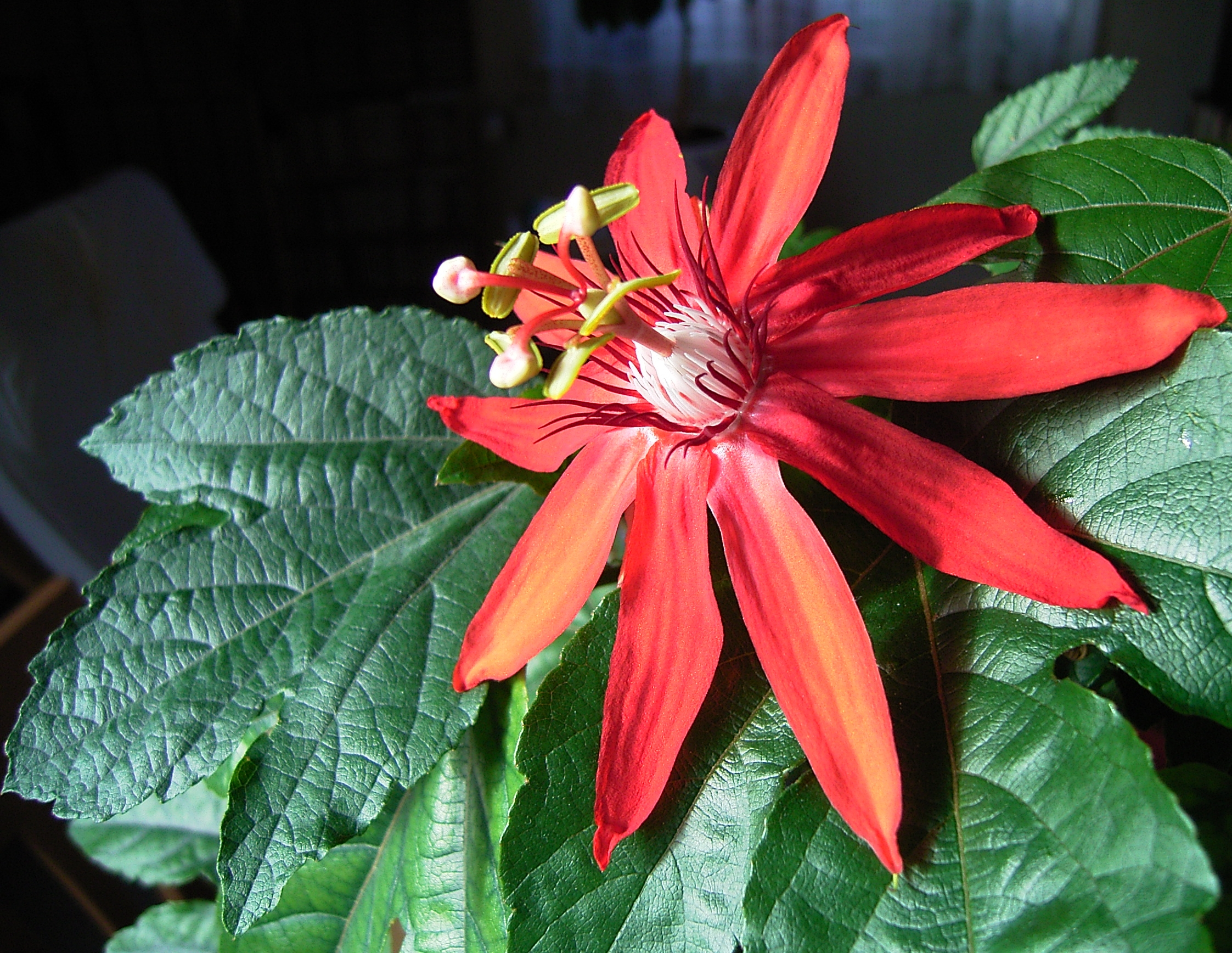 Passiflora vitifolia, Flower